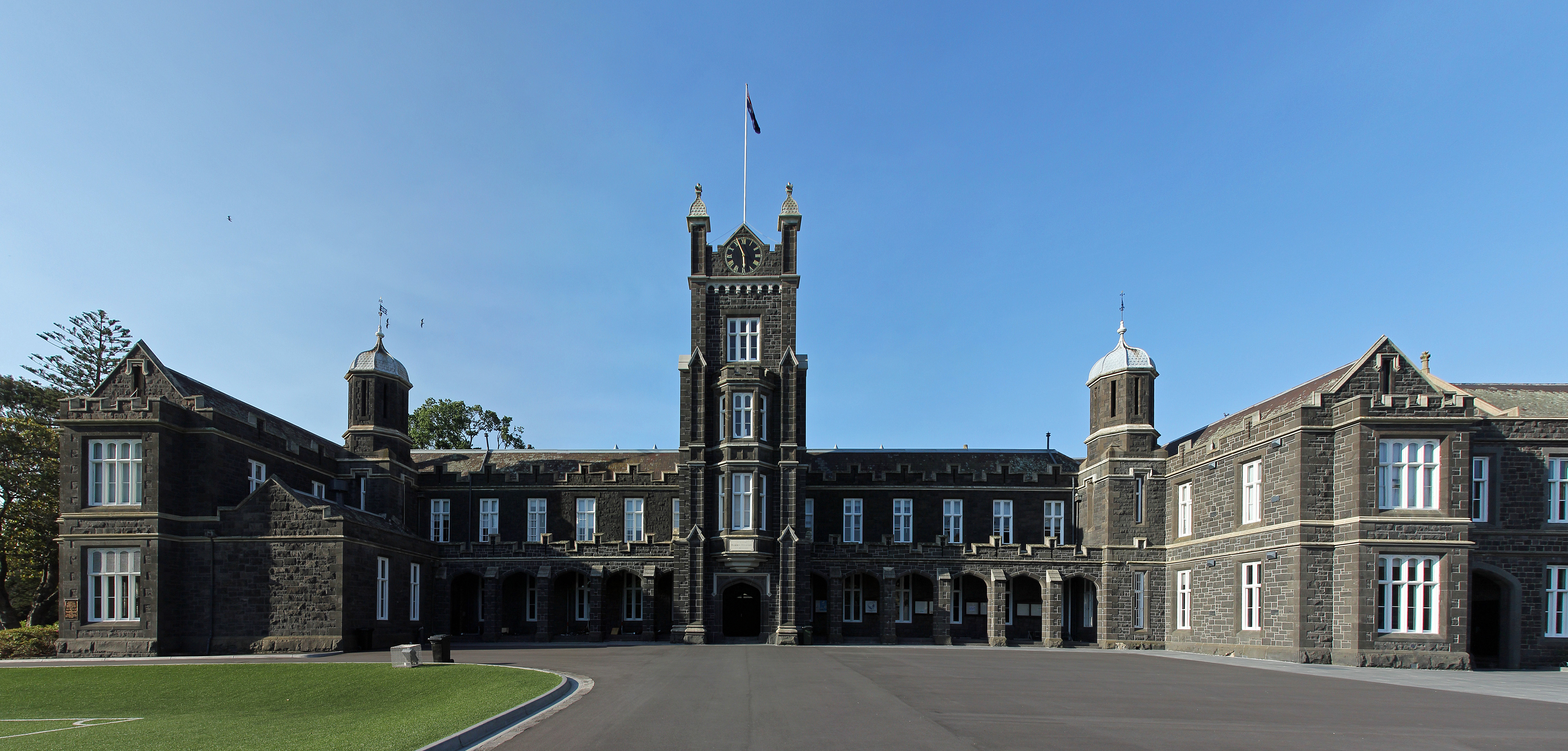 Melbourne Grammar School Witherby Tower Charles Webb Aarchitect